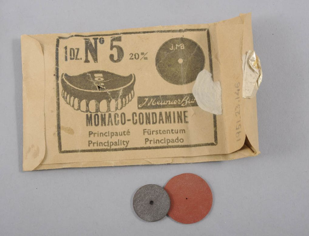 Rectangular package printed on both sides, opening on the width. Within are 16 roundels in two different sizes, some are red and the others gray.(Uses suction to adhere the prosthesis to the palate of the mouth).